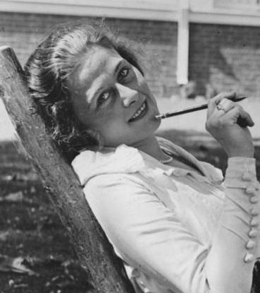 Frances Marion in 1918